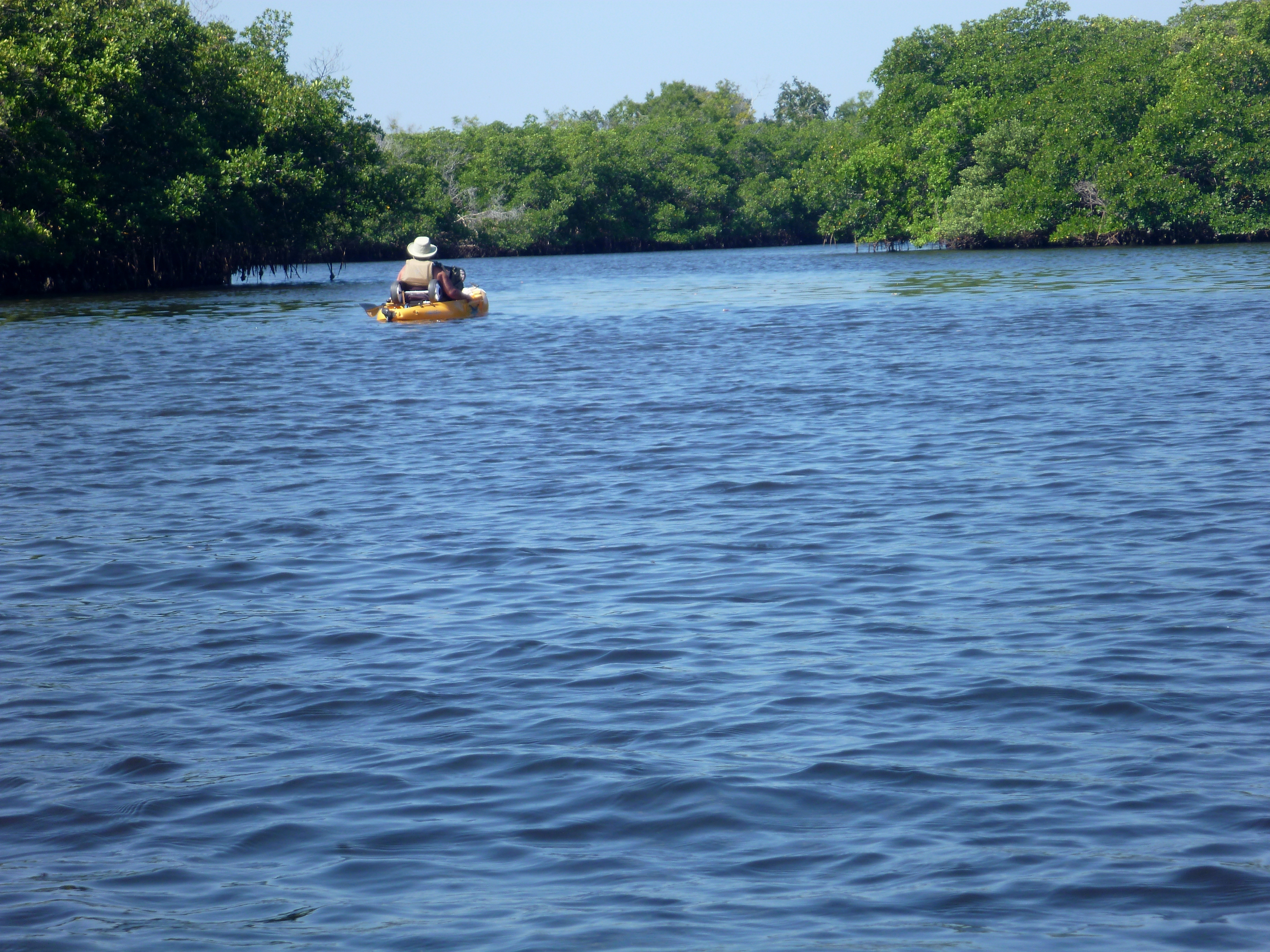 Kayaker on the Little Manatee River. Part of an entire set on Flickr.